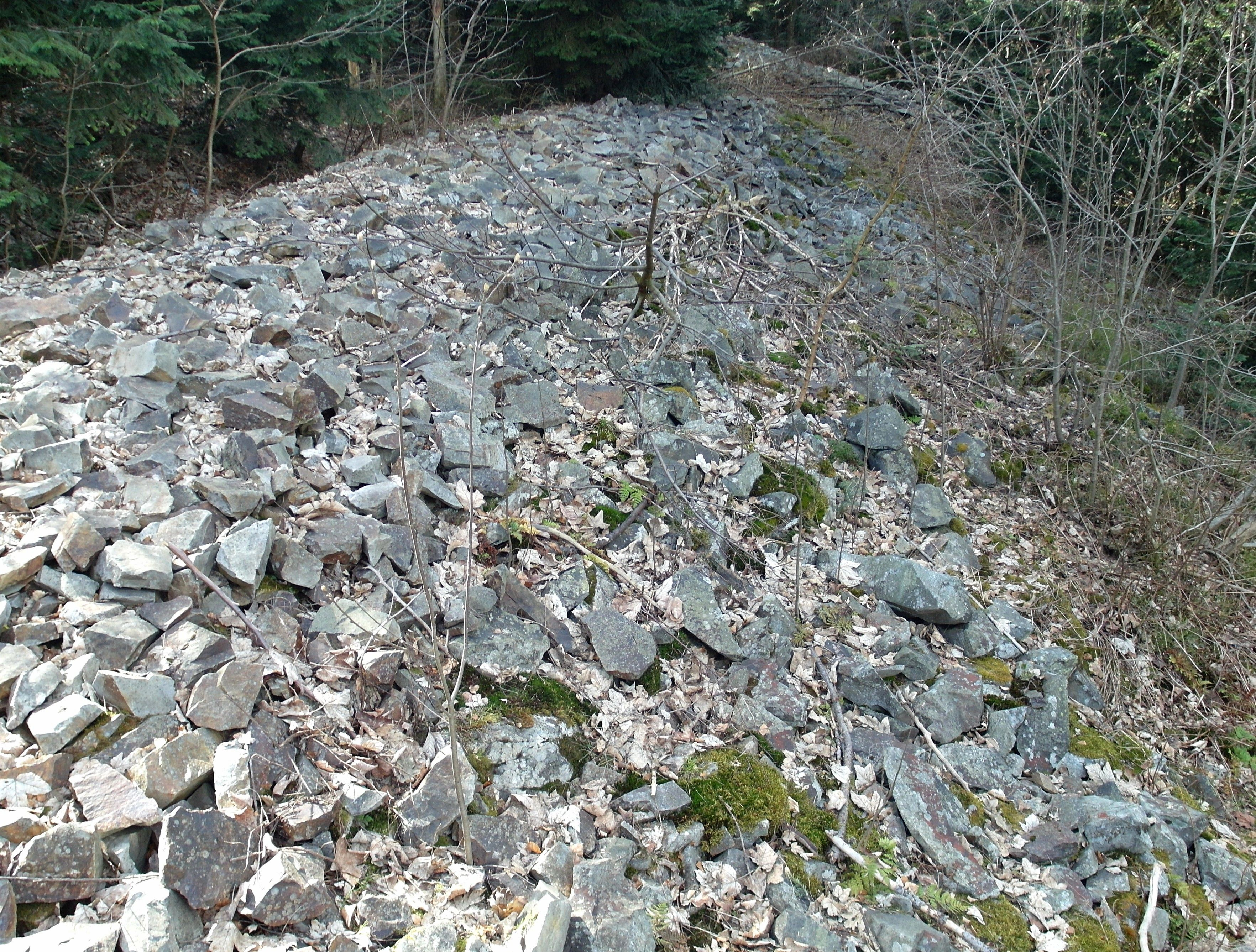 Pagan cult wall (VIII-IX Century B.C.) in Łysa Góra, Poland